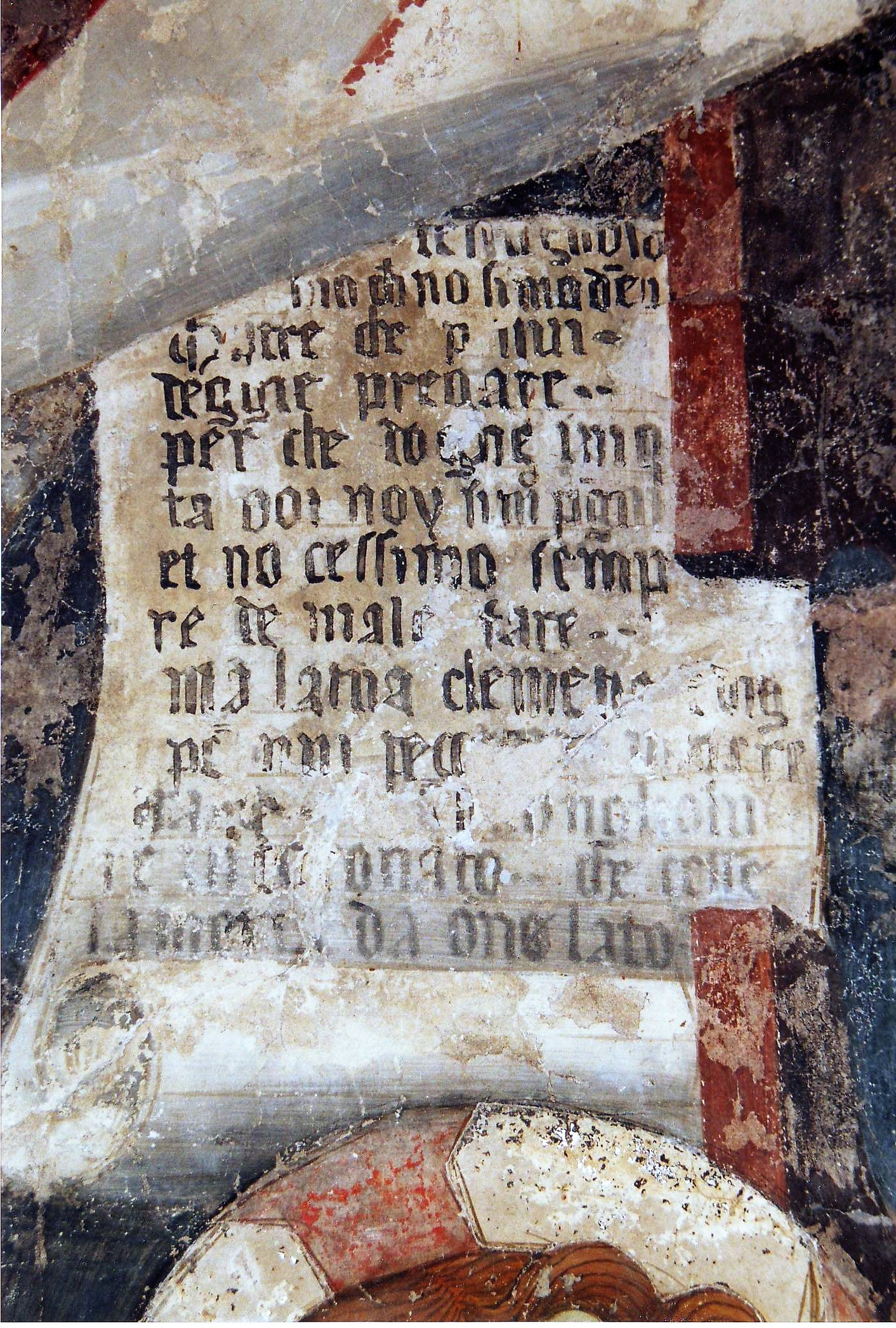 Cartouche with old prayer